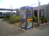 Telfort phone box at Meppel Station.